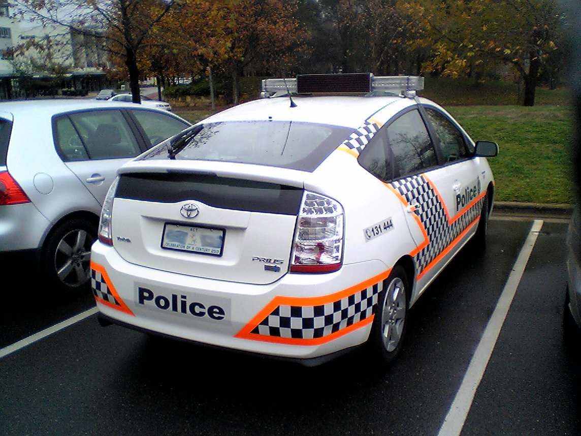 Australian Federal Police Prius Car.